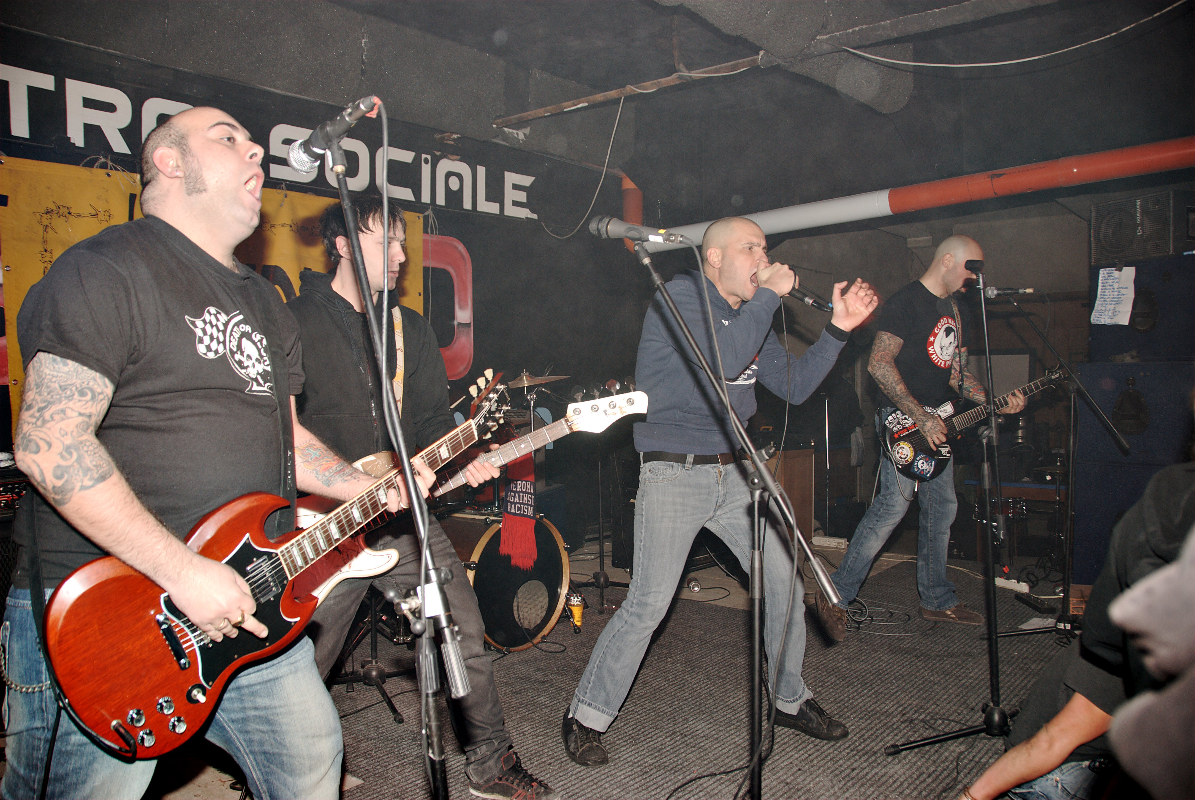 Los Fastidios playing at Centro Sociale Bruno in Trento